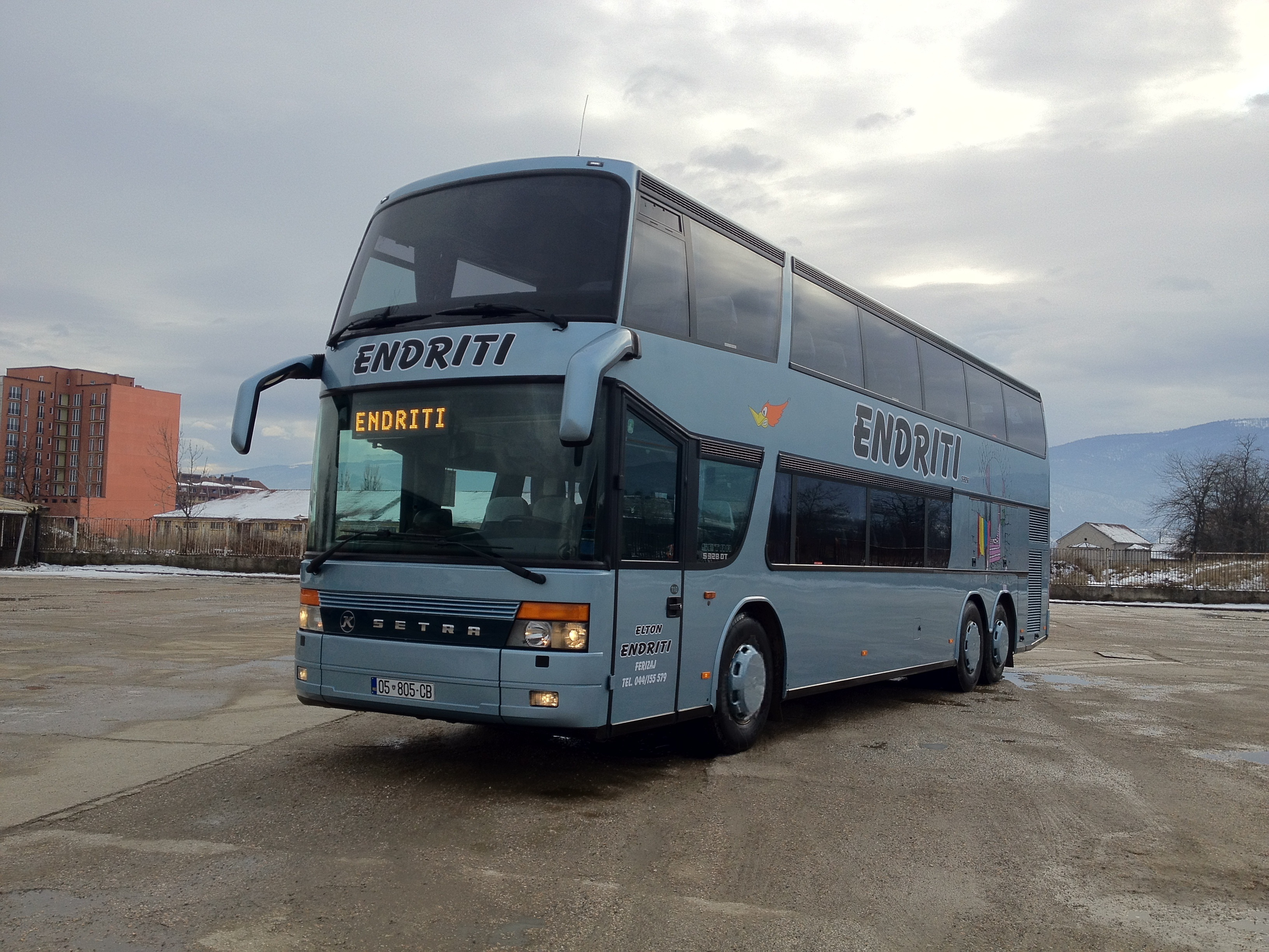 Setra 328 DT Endriti shpk